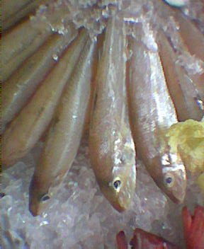 Description: This is a shot of asuhos being sold in a supermarket in Metro Manila. The fishes are from the family Sillaginidae. Author: Iyan Sommerset Uploader: User:Shrumster Date: The image was taken on January 18, 2007. Location: a supermarket in Metro Manila, Philippines Camera: Nokia 7250